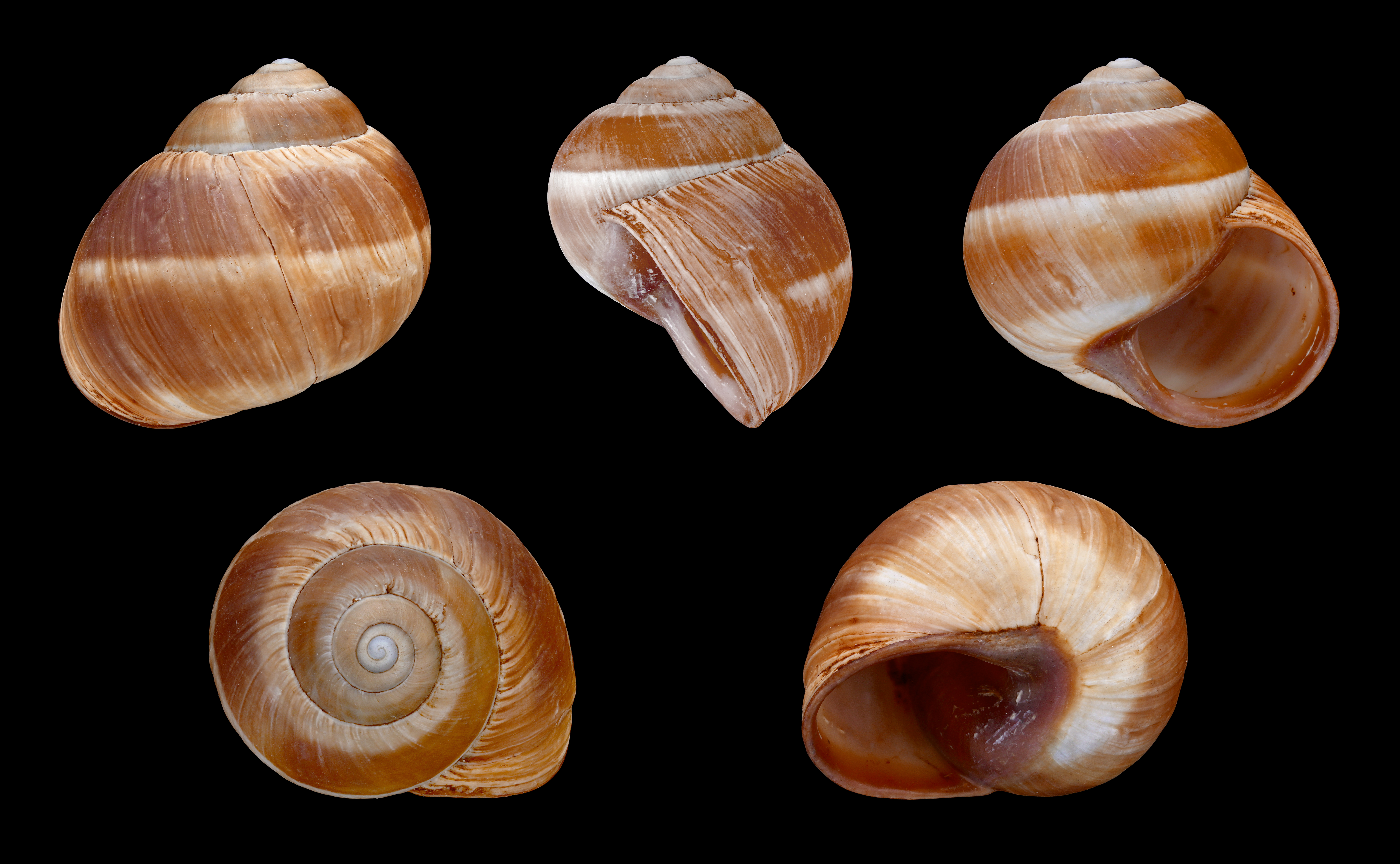 Diameter 3.6 cm; Originating from Cisterna Beach south of Rovinj, Croatia, 45°2′16.55″N 13°41′34.87″E / 45.0379306°N 13.6930194°E; Shell of own collection, therefore not geocoded.